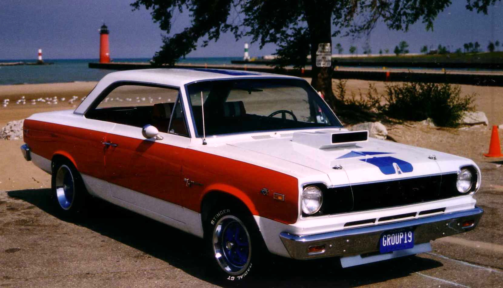 1969 SC/Rambler - a compact two-door hardtop "muscle car" produced by American Motors Corporation (AMC) in collaboration with Hurst Performance. Lake front picture taken in Kenosha, Wisconsin, with the pierhead lighthouse in the background.